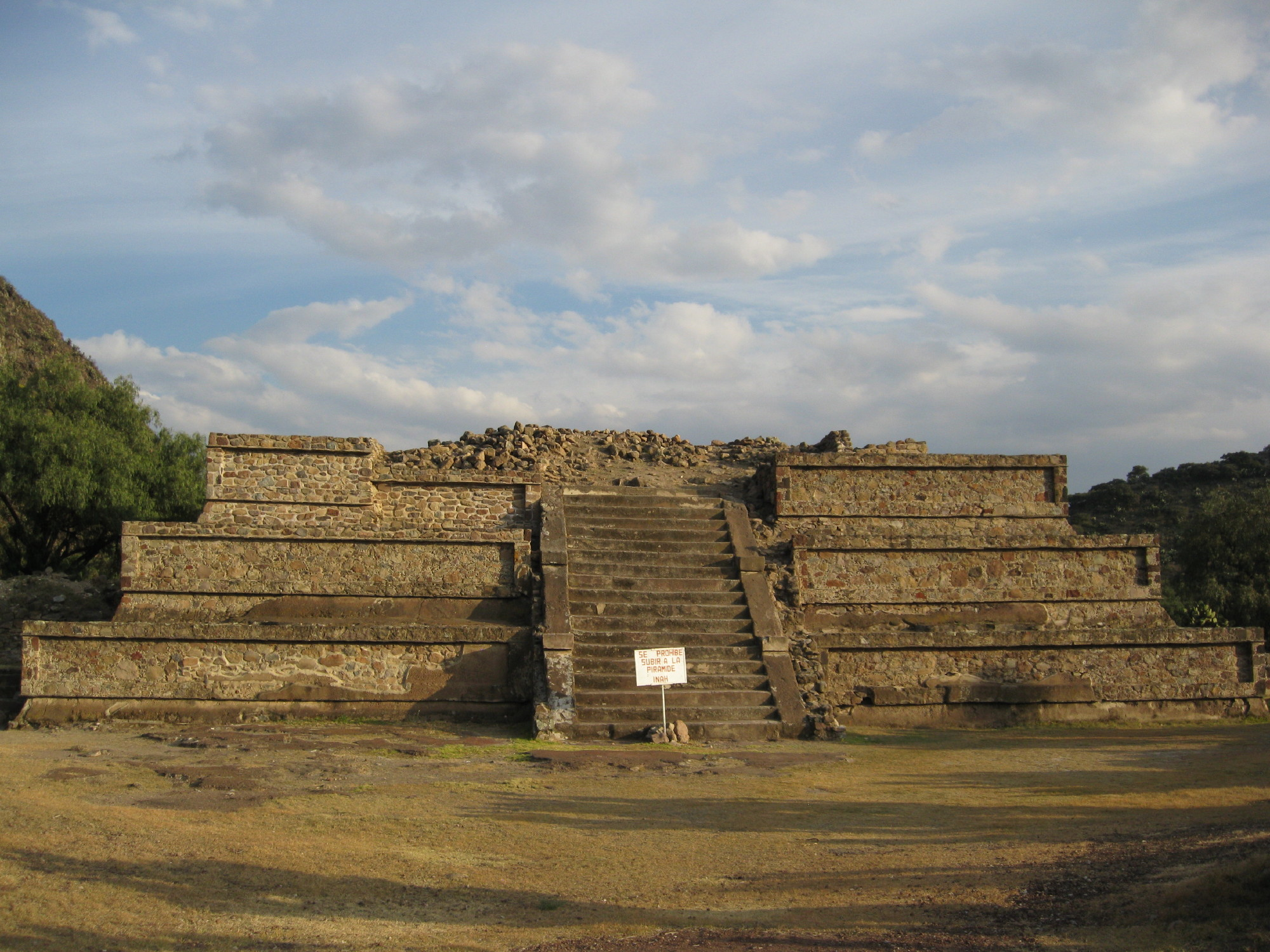 piramide of Xihuingo other side